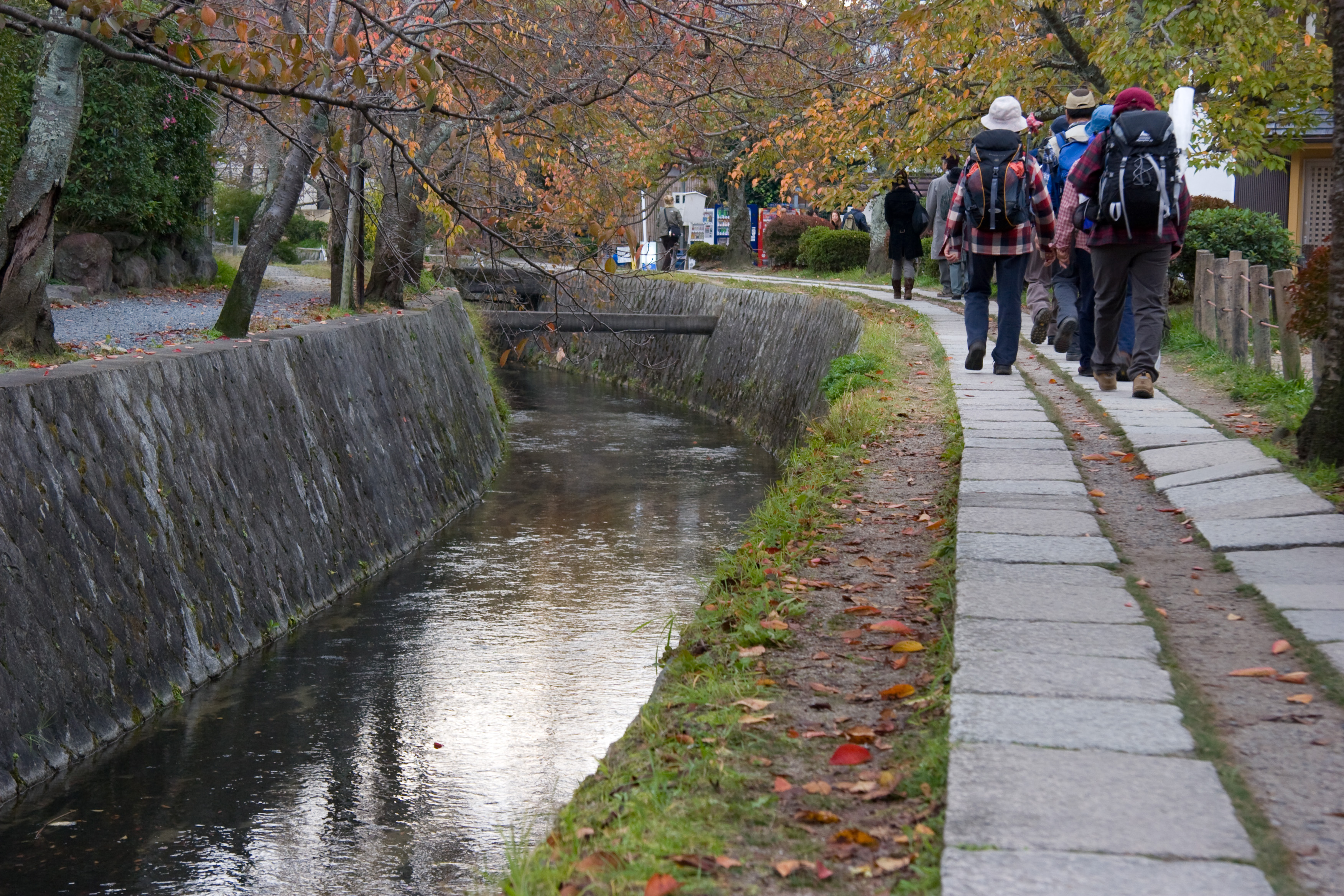 Path of Philosophy